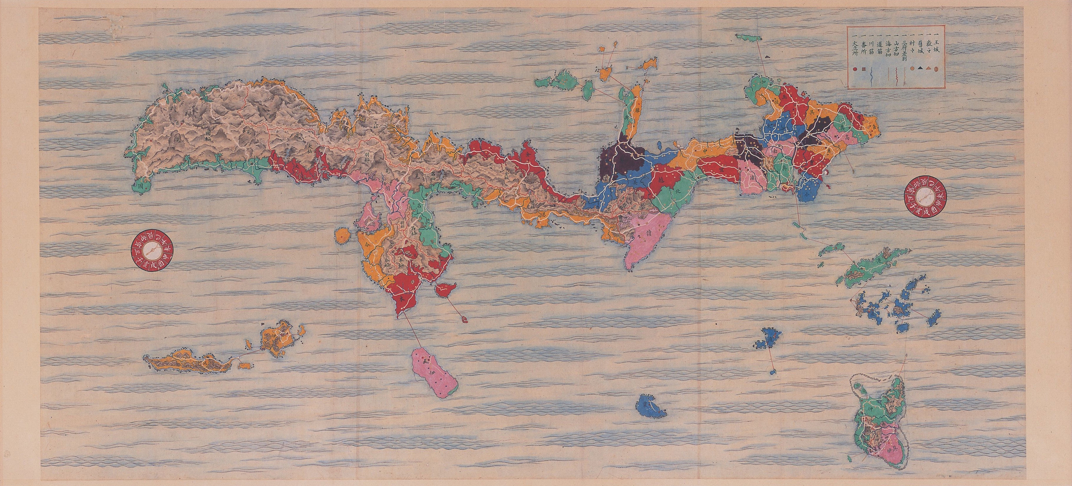 Map of the Ryukyu Kingdom, Okinawa Prefectural Library, Naha, Okinawa, Japan